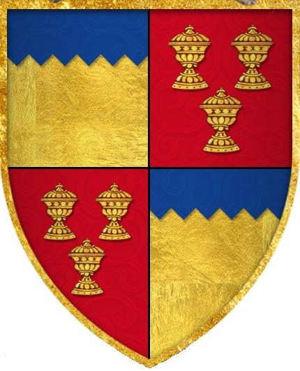 House Butler Armorial Bearings